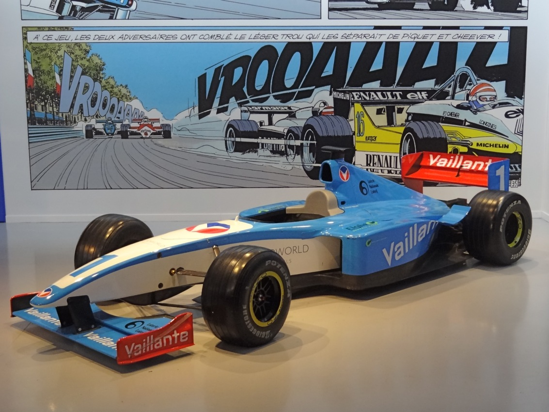 Vaillante F1 (Autoworld), Brusell. Based on a EJ11 Jordan Mugen Honda (2001)